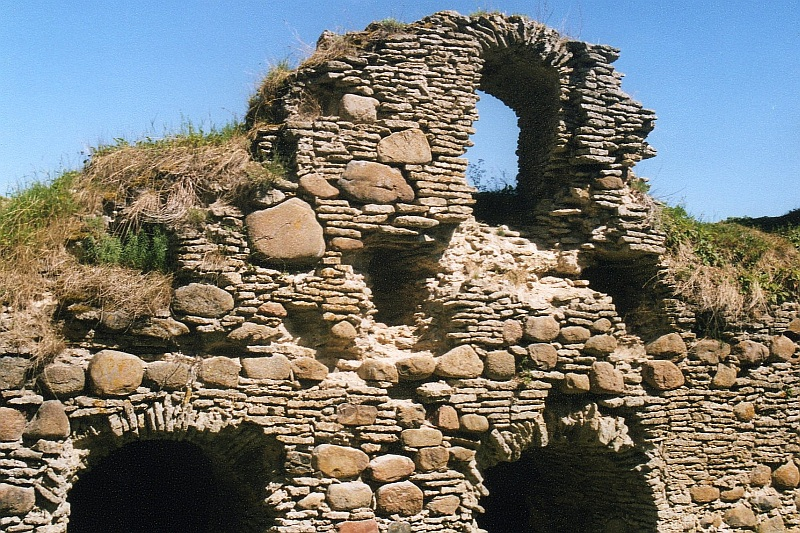 The part of the old fortress of Toolse on the northest Estonia.